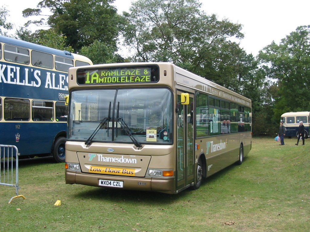 THAM WX04CZL 2004-09-26